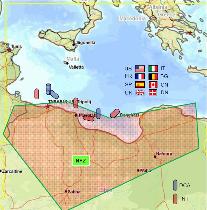 Operation Odyssey Dawn in Libya 2011. No Fly Zone (NFZ). US Vice Admiral Bill Gortney, Director of The Joint Staff: “Here is a good depiction of what the no-fly zone looks like right now. You can see we’ve got essentially seven patrol stations over the Mediterranean from which the aircraft staged themselves before being called to enforce the U.N. mandate. Some of these missions are what we call defensive combat air (DCA). You can see the patrol stations for these missions depicted in blue. These are missions designed solely to keep the airspace free of Libyan combat aircraft, and all of these missions are now being flown by our partner nation pilots. The other patrol stations, depicted in red, are designed for interdiction missions (INT), meaning these strikes conduct -- are conducted at ground targets, either fixed or moving. The United States is flying about half of all of these missions. You can also see the no-fly zone as it exists today, running coast to coast across the northern part of the country and extending further south. As I mentioned before, one of the airstrikes we conducted last night took out some SA-2 and SA-3 surface-to-air missile sites down in Sebha. You can also get a sense here of the international contributions to the no-fly zone mission. More than 350 aircraft are involved in some capacity, either enforcing the no-fly zone or protecting the civilian populace. Only slightly more than half belong to the United States. It’s fair to say that the coalition is growing in both size and capability every day. Today there are nine other contributing nations, to include Qatar, and thousands of coalition military personnel involved in this effort. They’re deployed across Europe and on the Mediterranean at bases ashore and on any of one of the 38 ships at sea.”